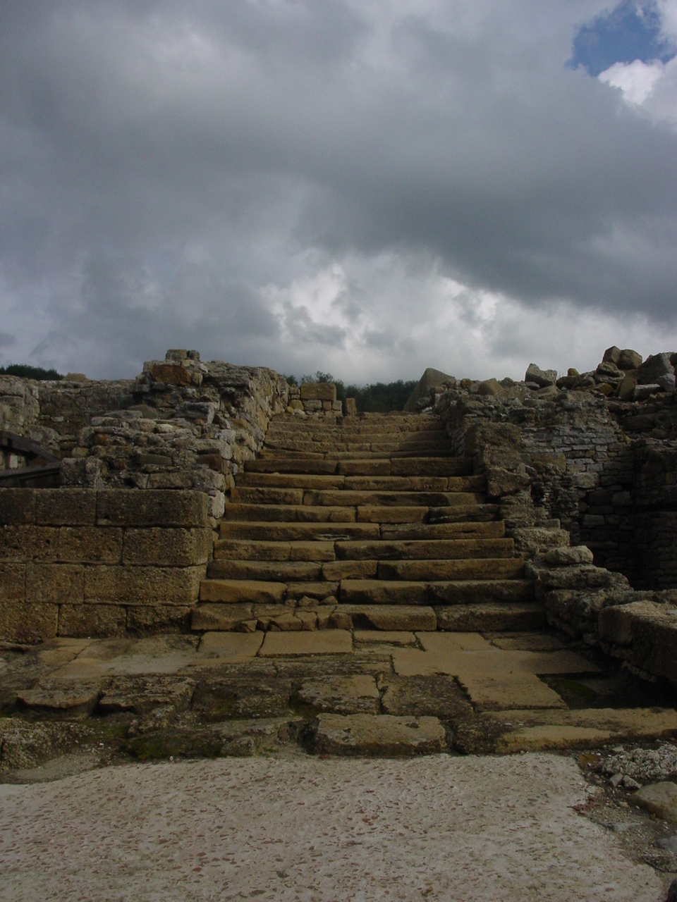 Steps to the entrance of Carteia